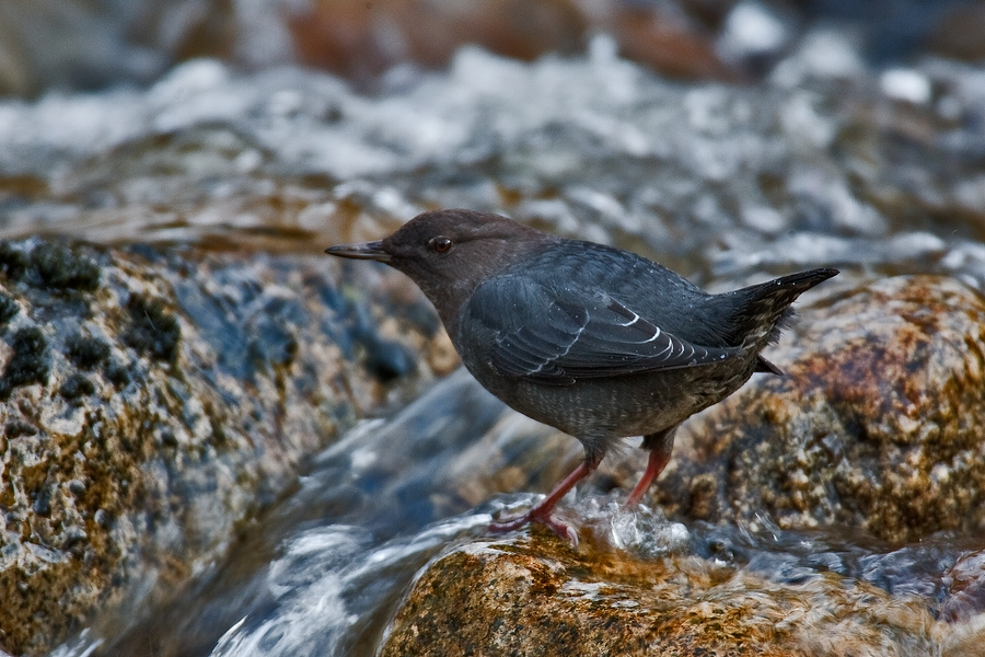 Amercan Dipper, Noons Creek Near Shoreline Park, Port Moody, British Columbia.